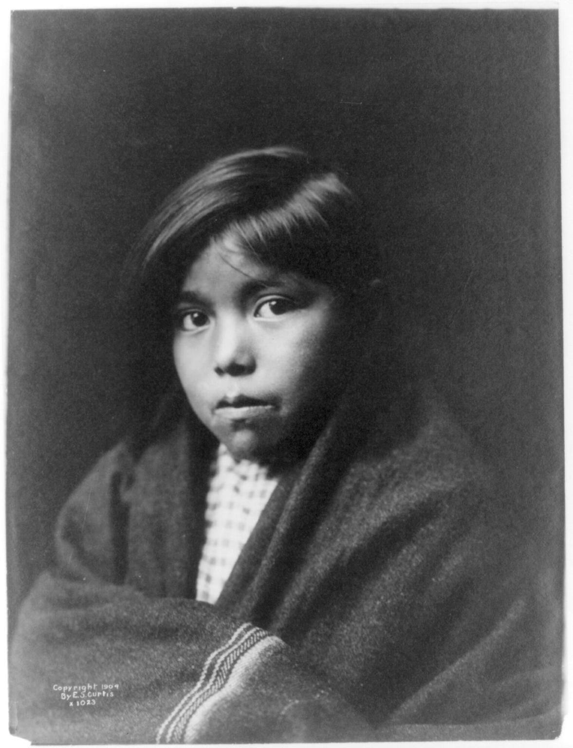 "Navajo girl" (c.1904). From The North American Indian, by Edward S. Curtis.